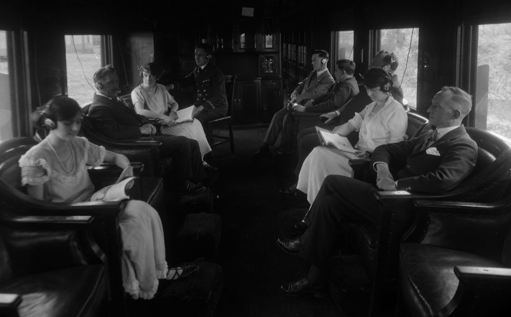 Title / Titre : Interior of a Canadian National Railways radio car / Intérieur d’un wagon-radio des Chemins de fer nationaux du Canada Creator(s) / Créateur(s) : Unknown / Inconnu Date(s) : 1927 Reference No. / Numéro de référence : MIKAN 3349570 Location / Lieu : Unknown / Inconnu Credit / Mention de source : Canadian National Railways. Library and Archives Canada, e010859790 / Chemins de fer nationaux du Canada. Bibliothèque et Archives Canada, e010859790